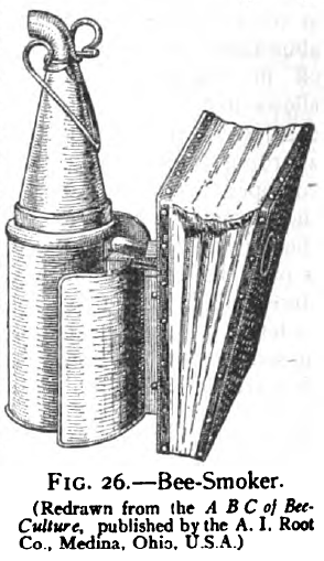 Bee-Smoker Encyclopaedia Britannica 1911